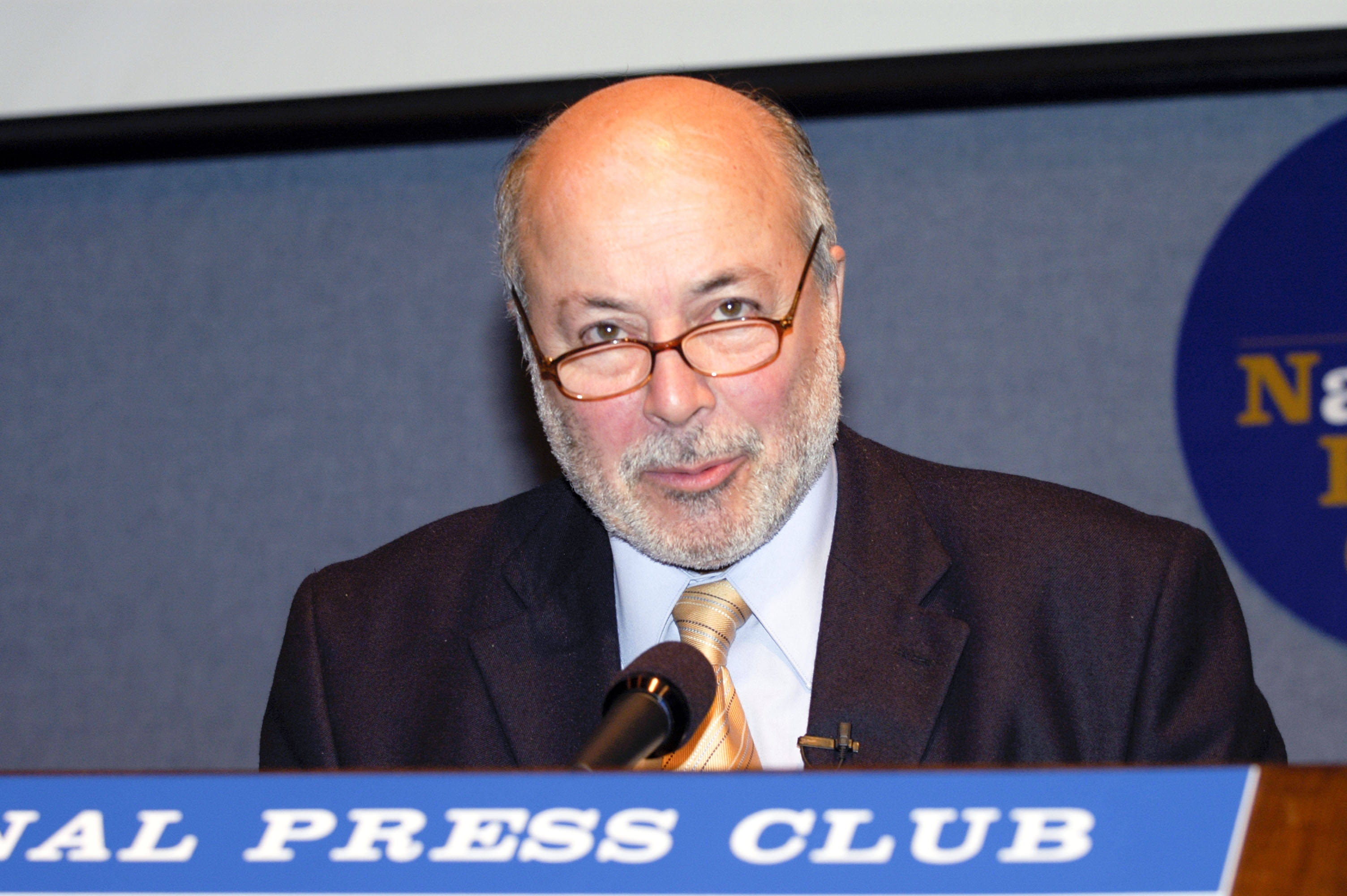 Juan Guzmán Tapia at the National Press Club 2005 Annual Letelier Moffit Human Rights Award